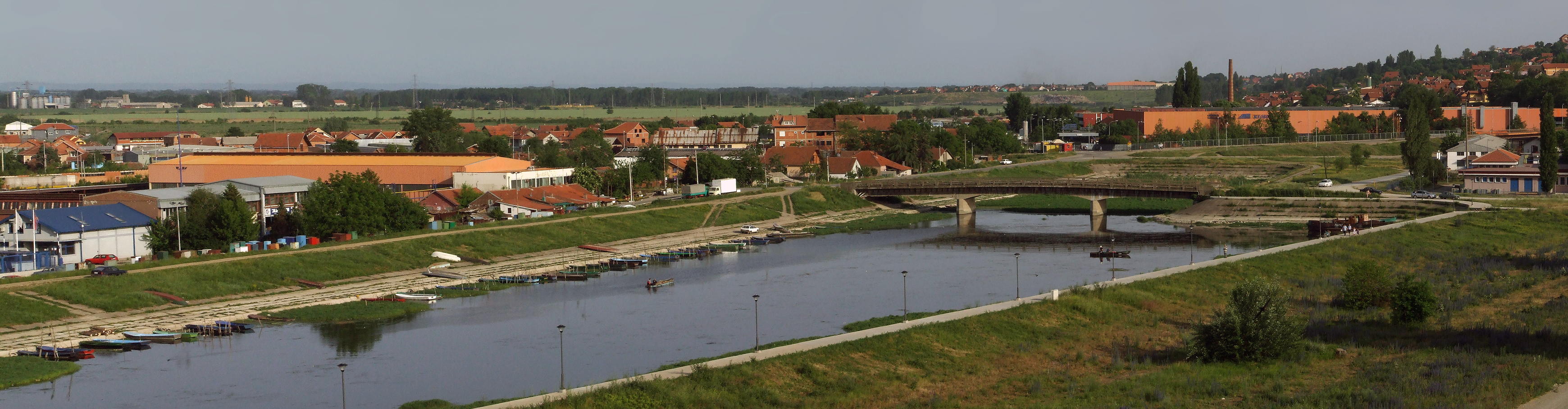 The river Jezava pictured from Smederevo Fortress.